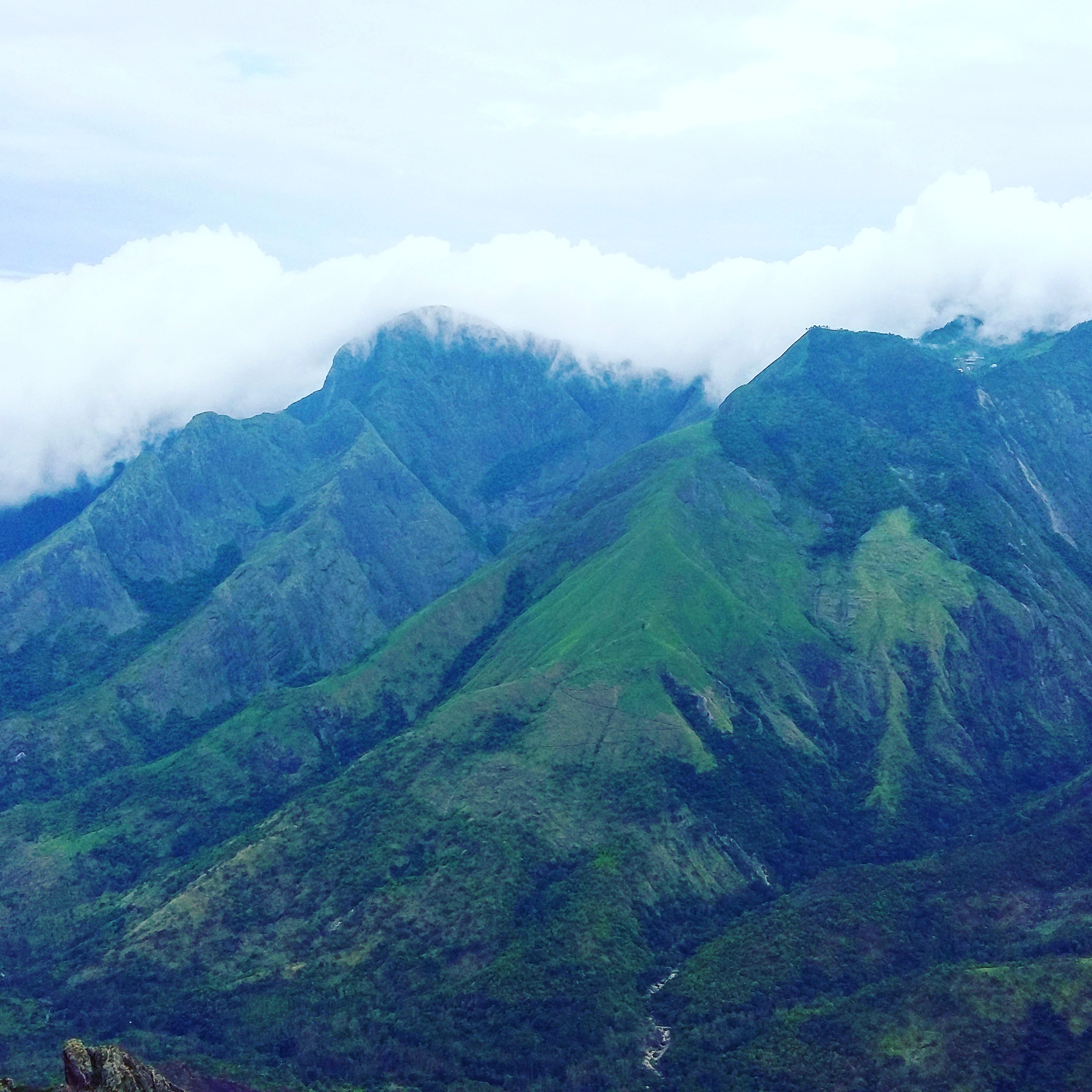 View of Sahyadri (aka Western Ghats), clicked from Top Station point of Kannan Devan hills of Tamil Nadu.